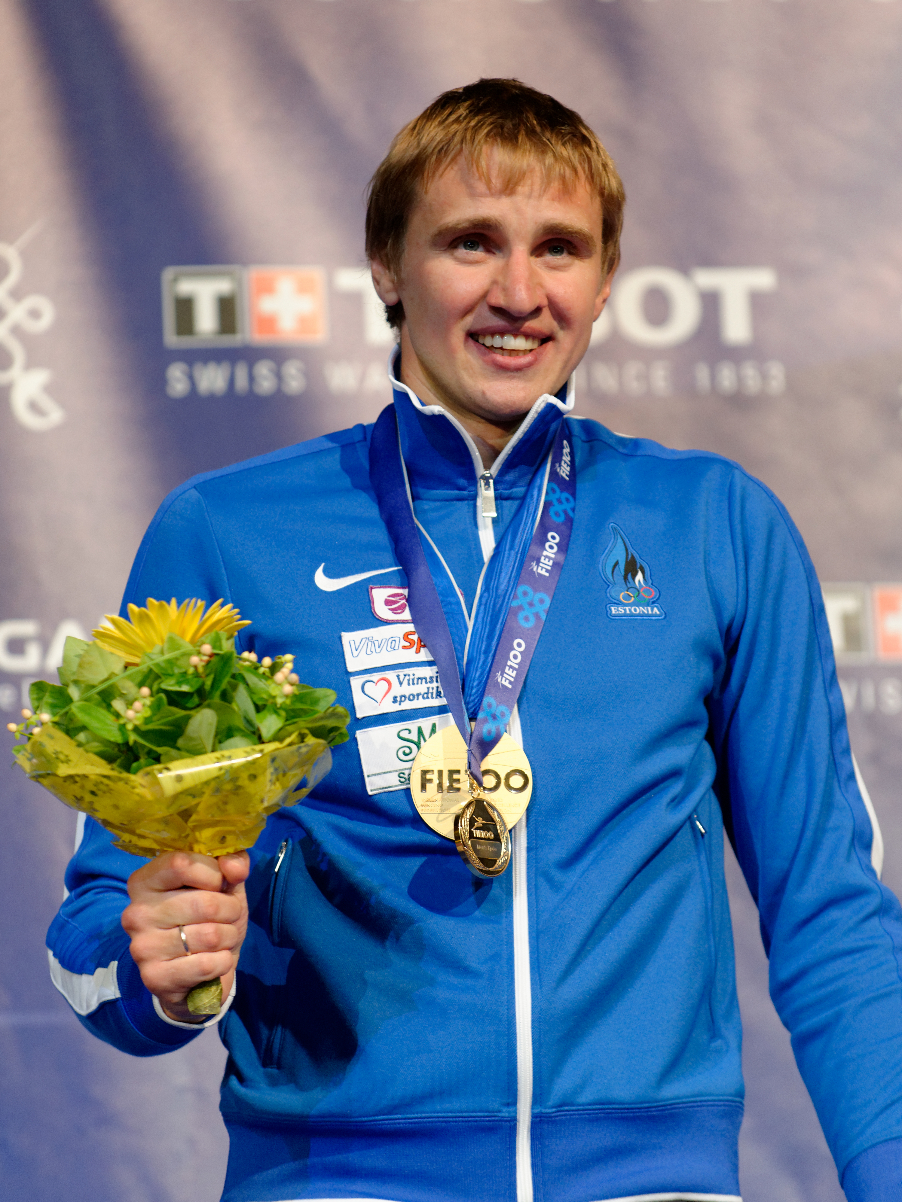 Estonia's Nikolai Novosjolov stands on the podium of the men's épée event in the 2013 World Fencing Championships 2013 at Syma Hall in Budapest, 8 August 2013.